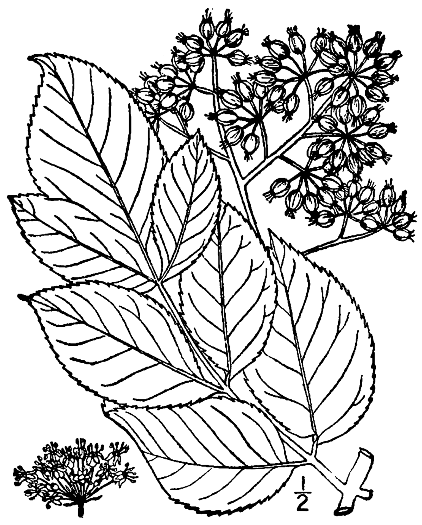 Aralia spinosa L. - devil's walkingstick